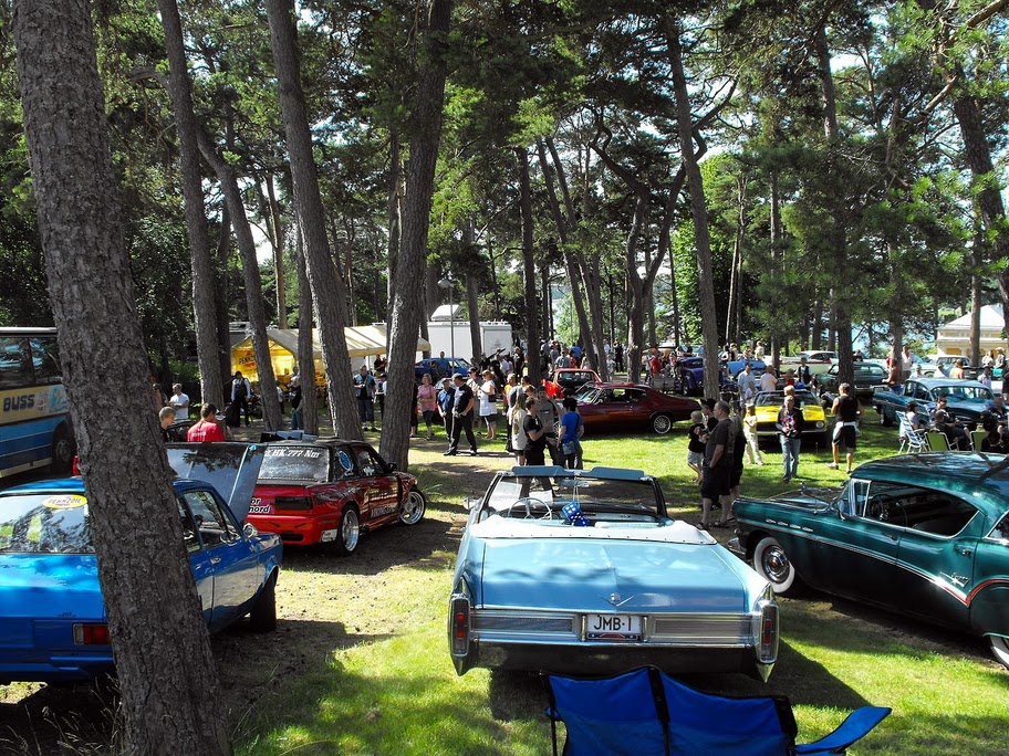 A picture taken during an automobile exhibit on Åland 2009